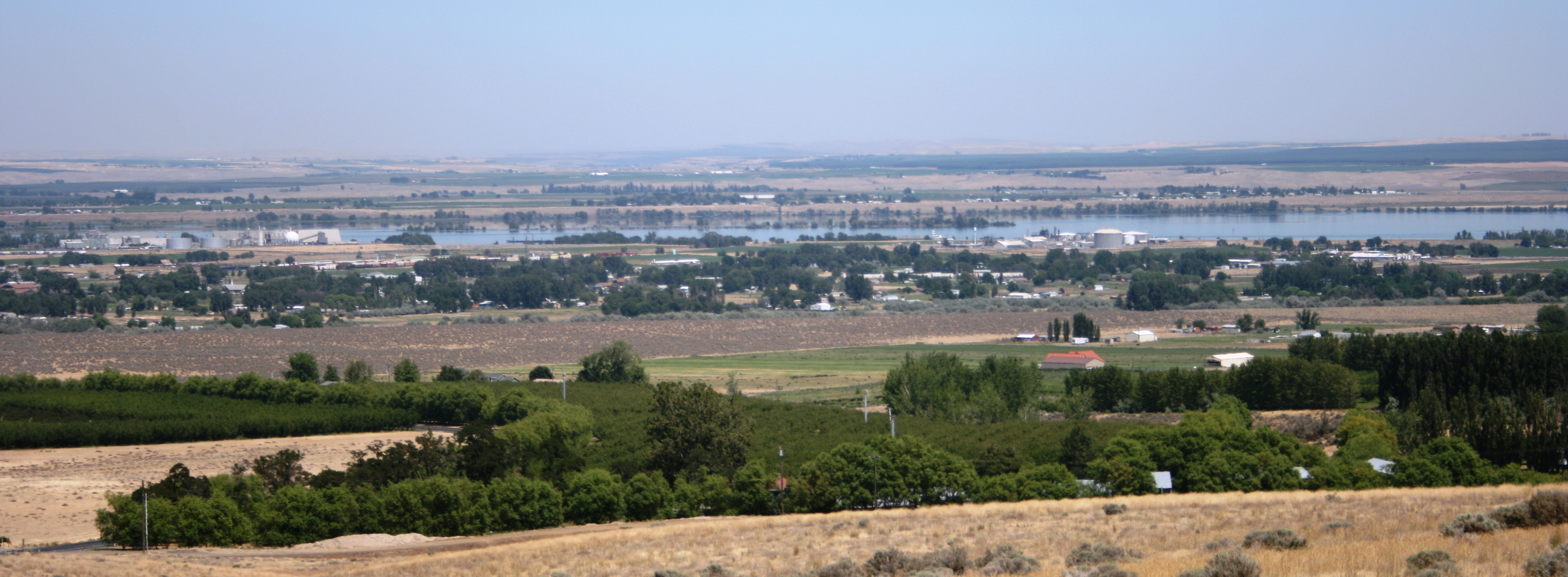 Finley, Washington